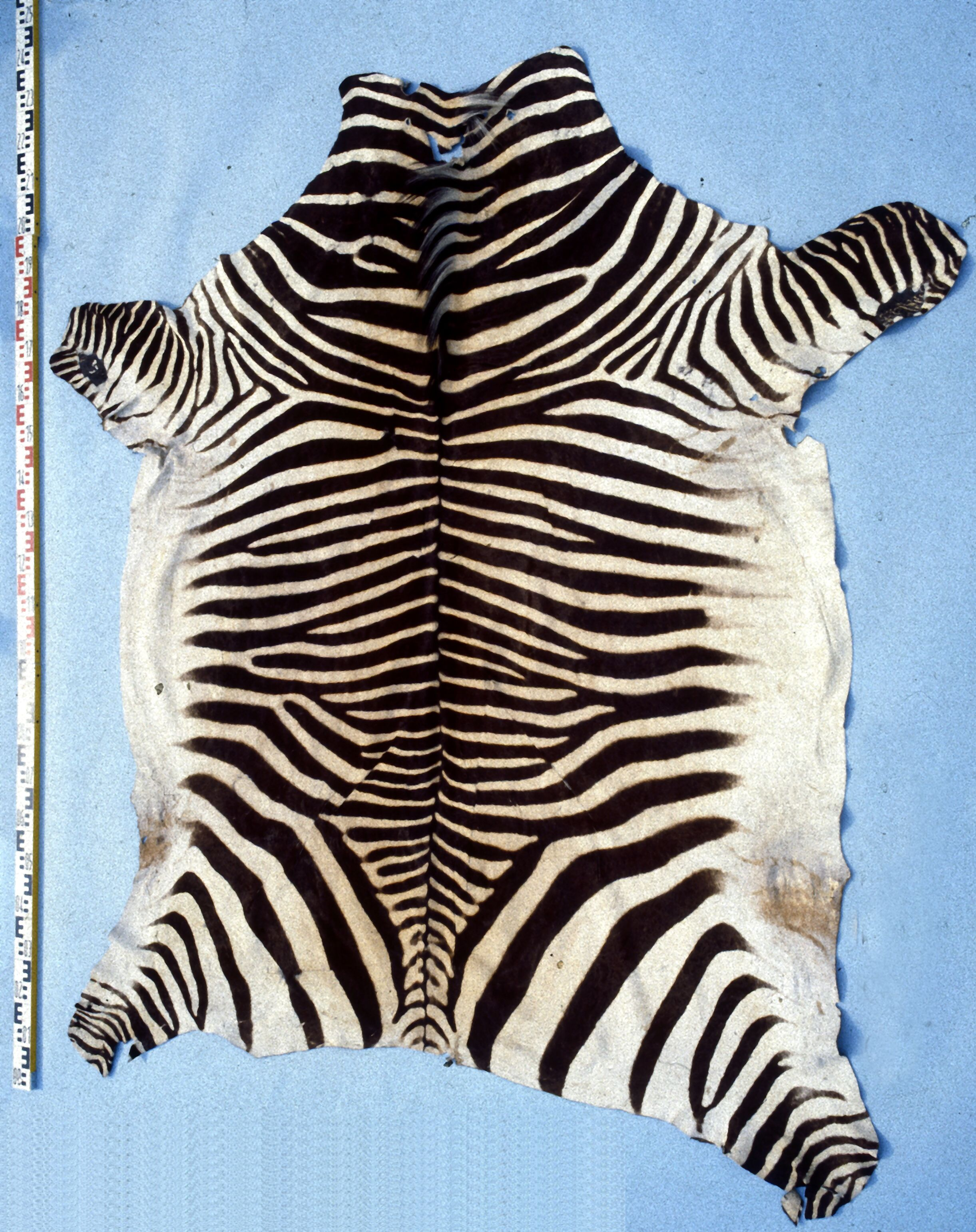 Hartmann's mountain zebra (Equus zebra hartmannae). Fur skin collection, Bundes-Pelzfachschule, Frankfurt/Main, Germany.